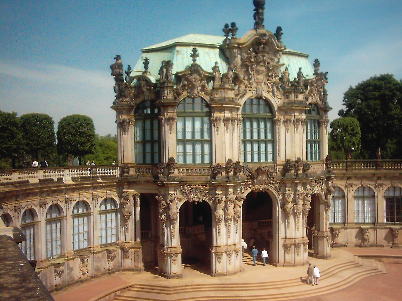 Wall Pavilion at the Zwinger, Dresden